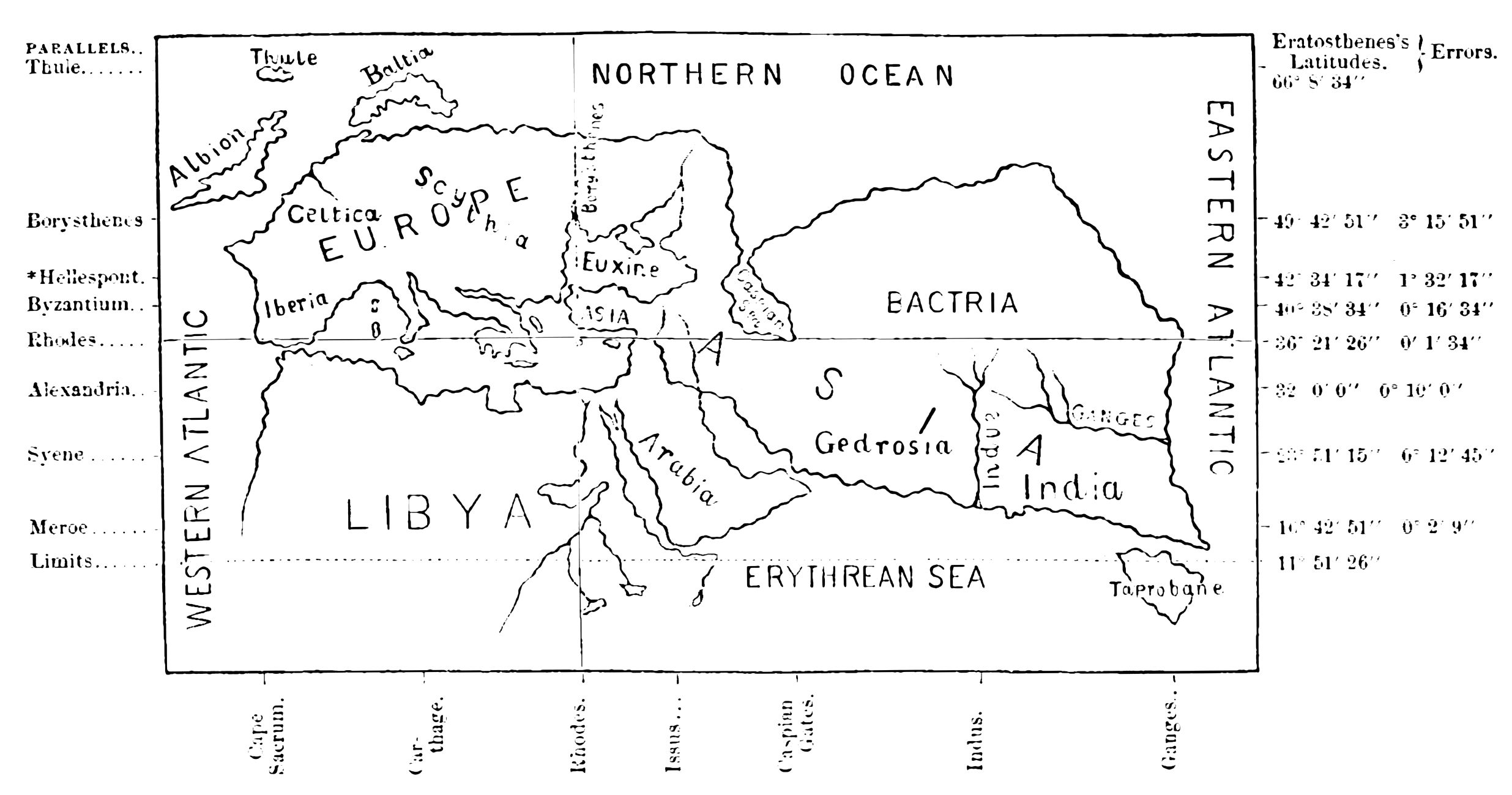 Eratosthenes map of the world